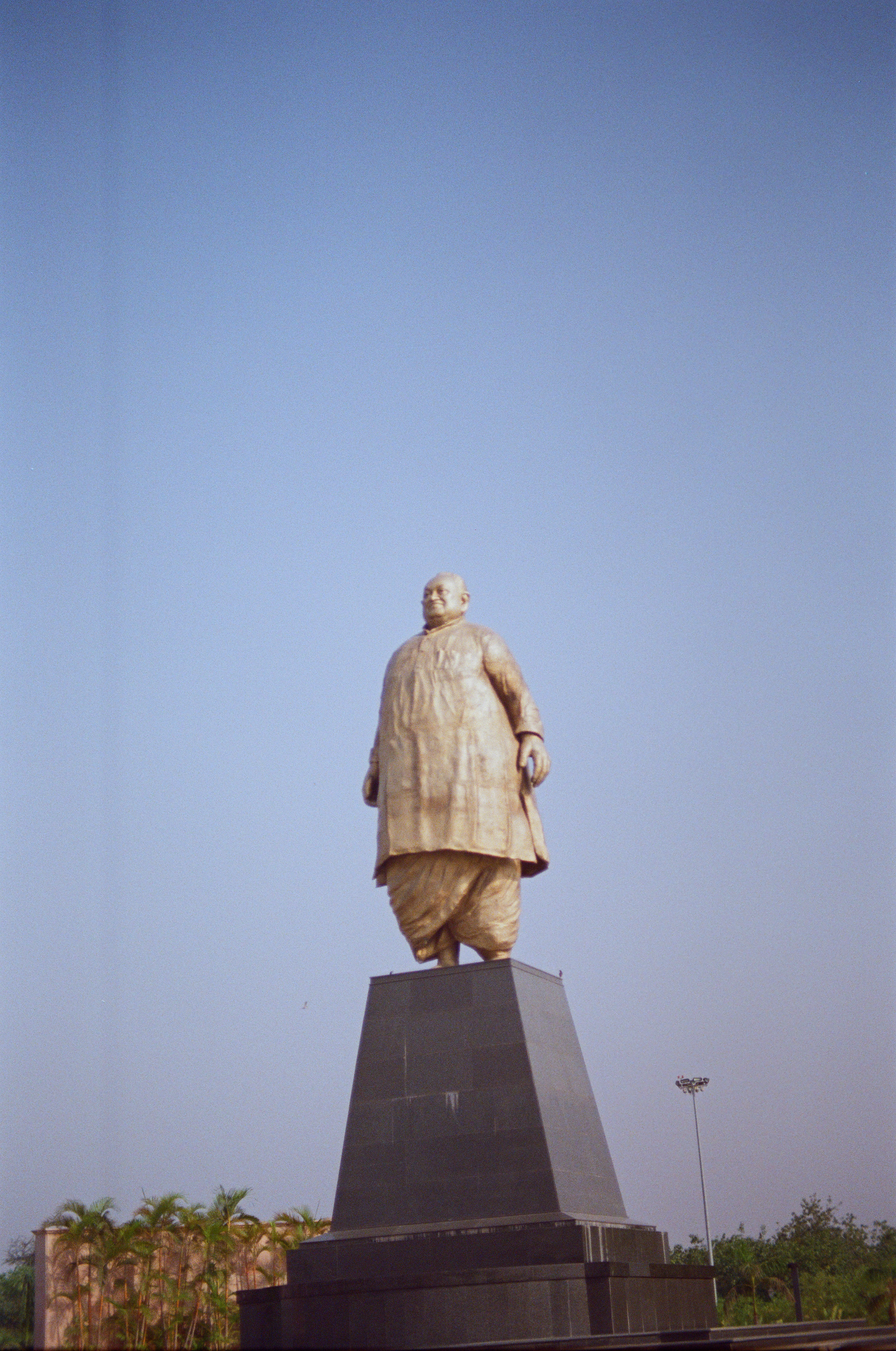 Pandit Janeshwar Mishra alias Chhote Lohia